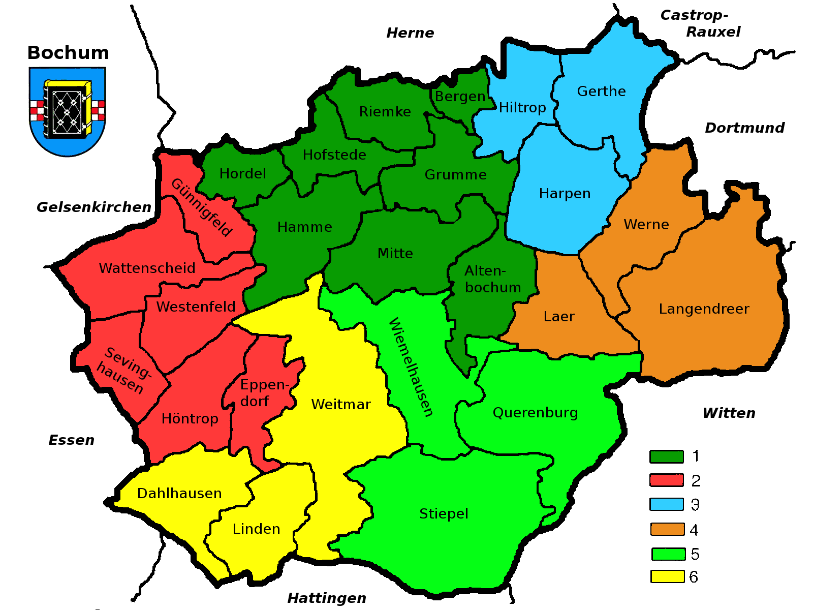 Town districts of Bochum Source: [1] by Priwinn, changed by Flux Garden and Simplicius